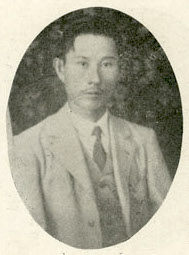 劉榮春 Lâu Êng-chhun